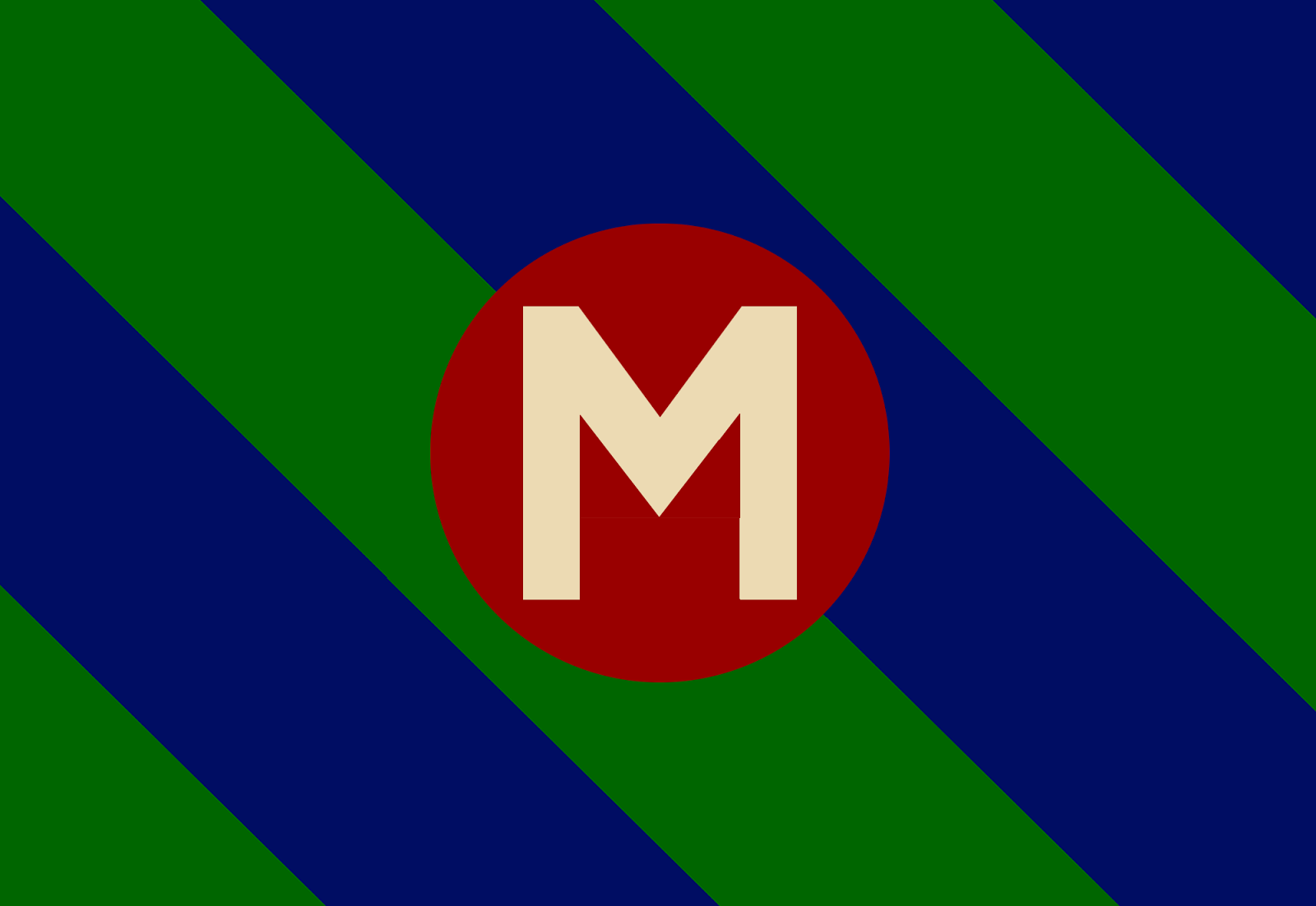 A field of green and blue angled stripes, with a red circle in the center emblazoned with a cream-colored "M". It was designed by the City of Milwaukee in 1928 when the Hamburg America cruise line decided to christen its newest ship the MS Milwaukee and needed a city flag for the naming ceremony.